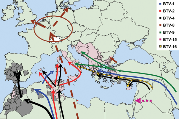 The molecular epidemiology of bluetongue virus (BTV) since 1998: routes of introduction of different serotypes and individual virus strains. *Presence of BTV-specific neutralizing antibodies in animals in Bulgaria, but the presence of BTV serotype 8 cannot yet be confirmed.